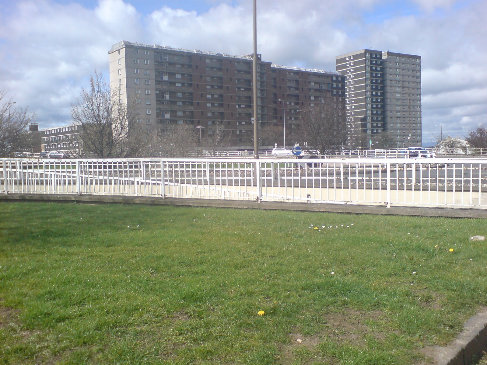 Two of the four high-rises can be seen, Broomview House and Glenalmond Court. Broomview House is in the process of being decanted in this picture, the block now no longer being there having been demolished in September 2008.